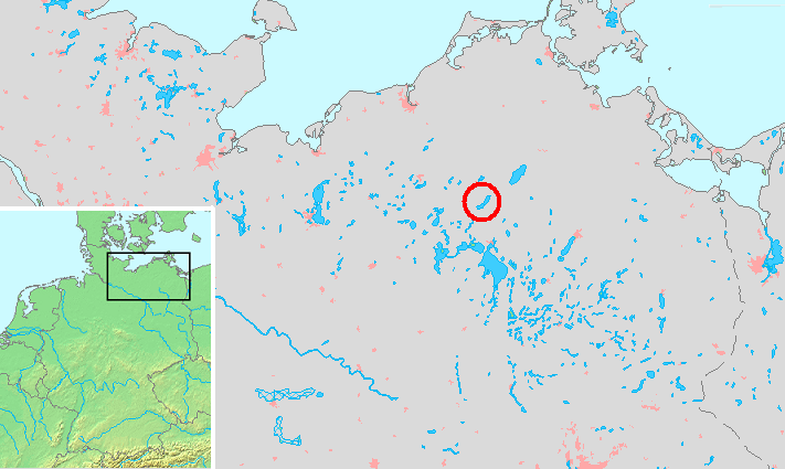 Locator maps of lakes in Germany : Location Malchinersee.PNG